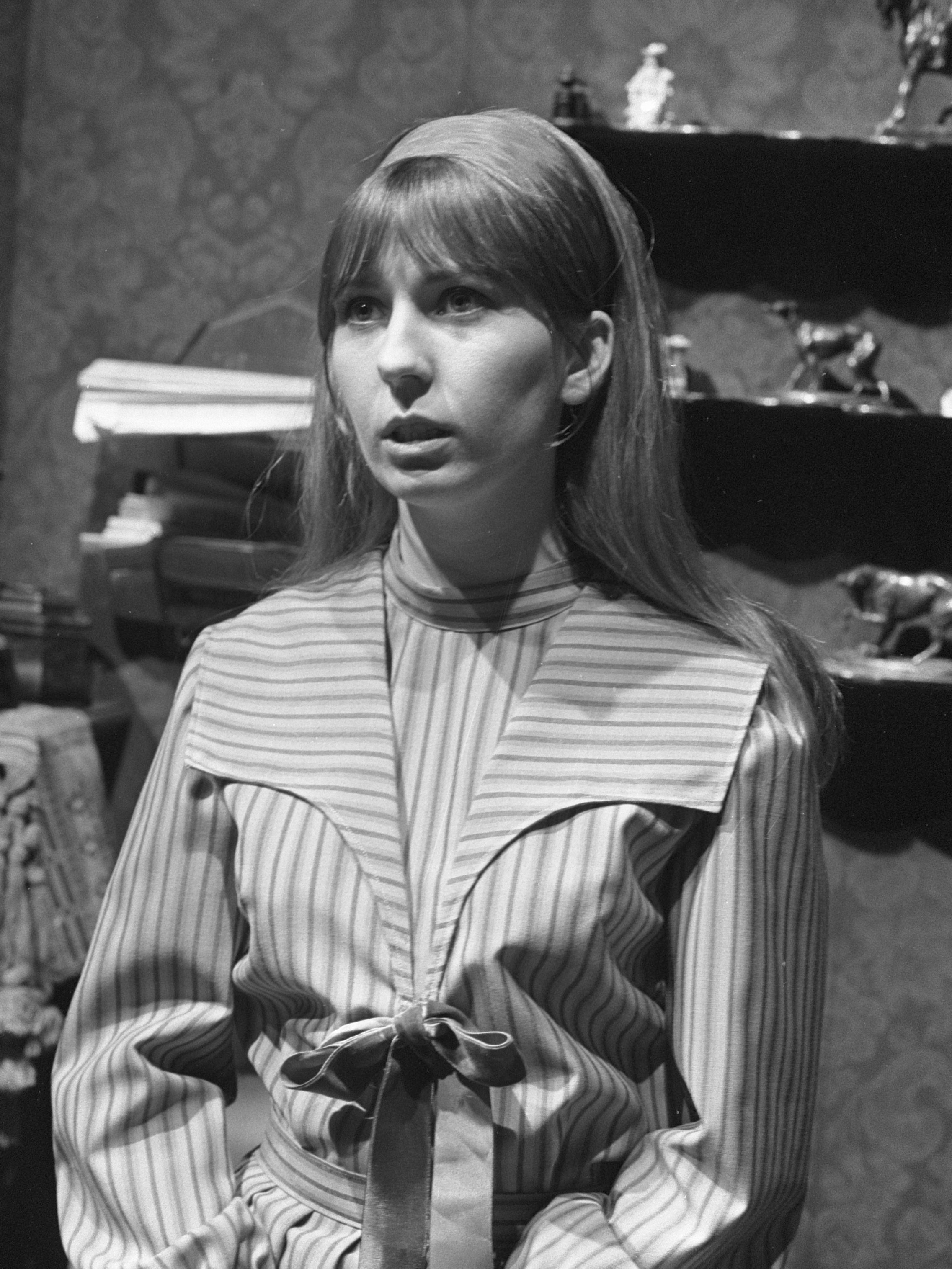 Willeke Alberti in de rol van Marleen Spaargaren in TV-spel 'De Kleine Waarheid' van de NCRV 24 maart 1970